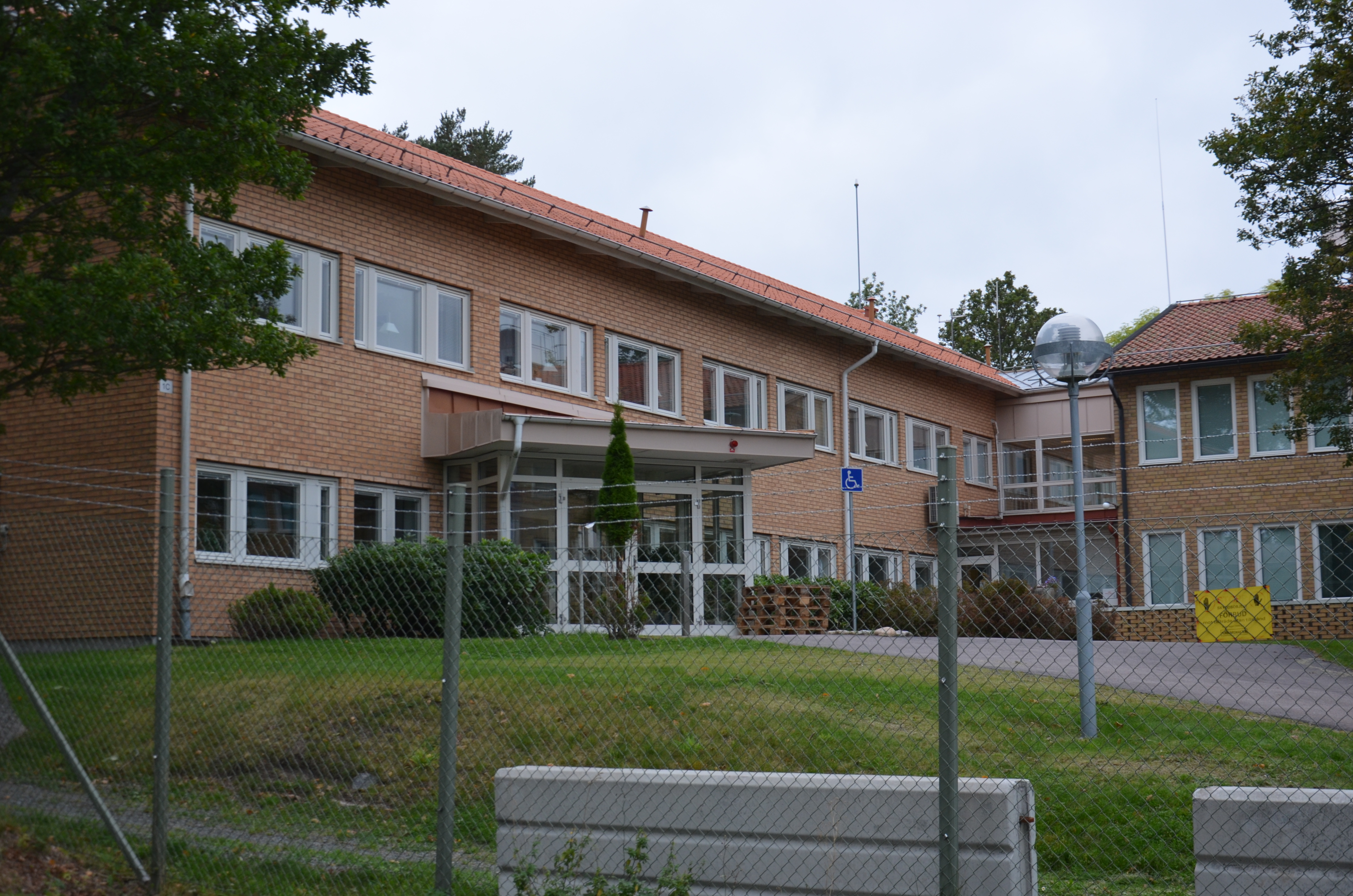 Sjö- och flygräddningscentralen i Göteborg